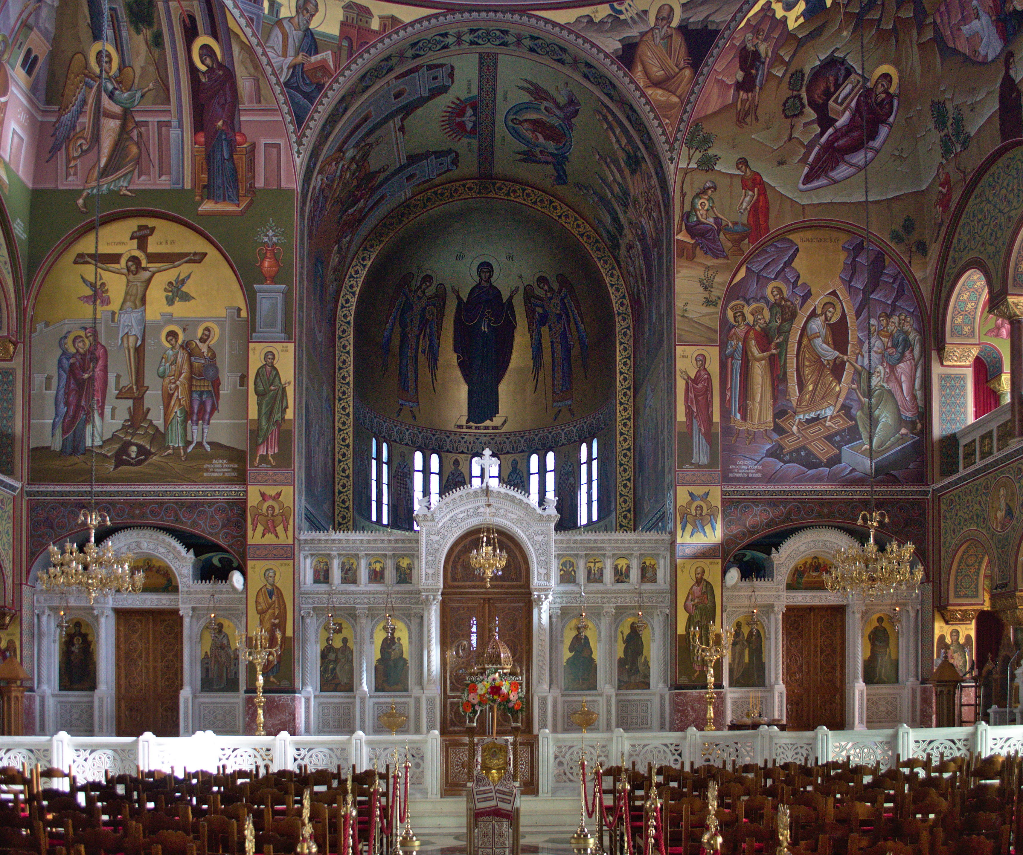 Holy Trinity church in Piraeus